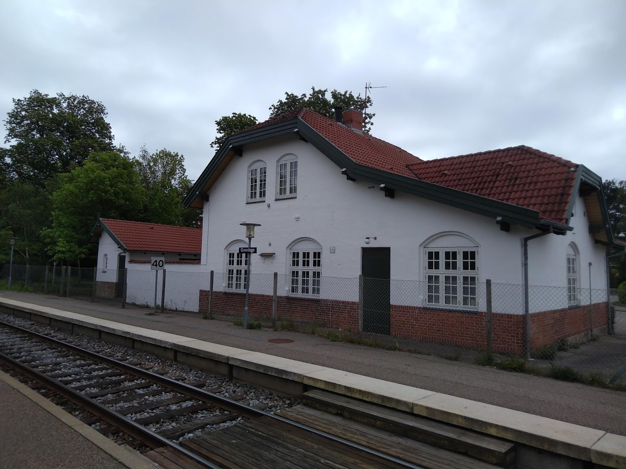 Grevinge Station is a station on the Odsherred line, connecting Holbæk with Nykøbing Sjælland